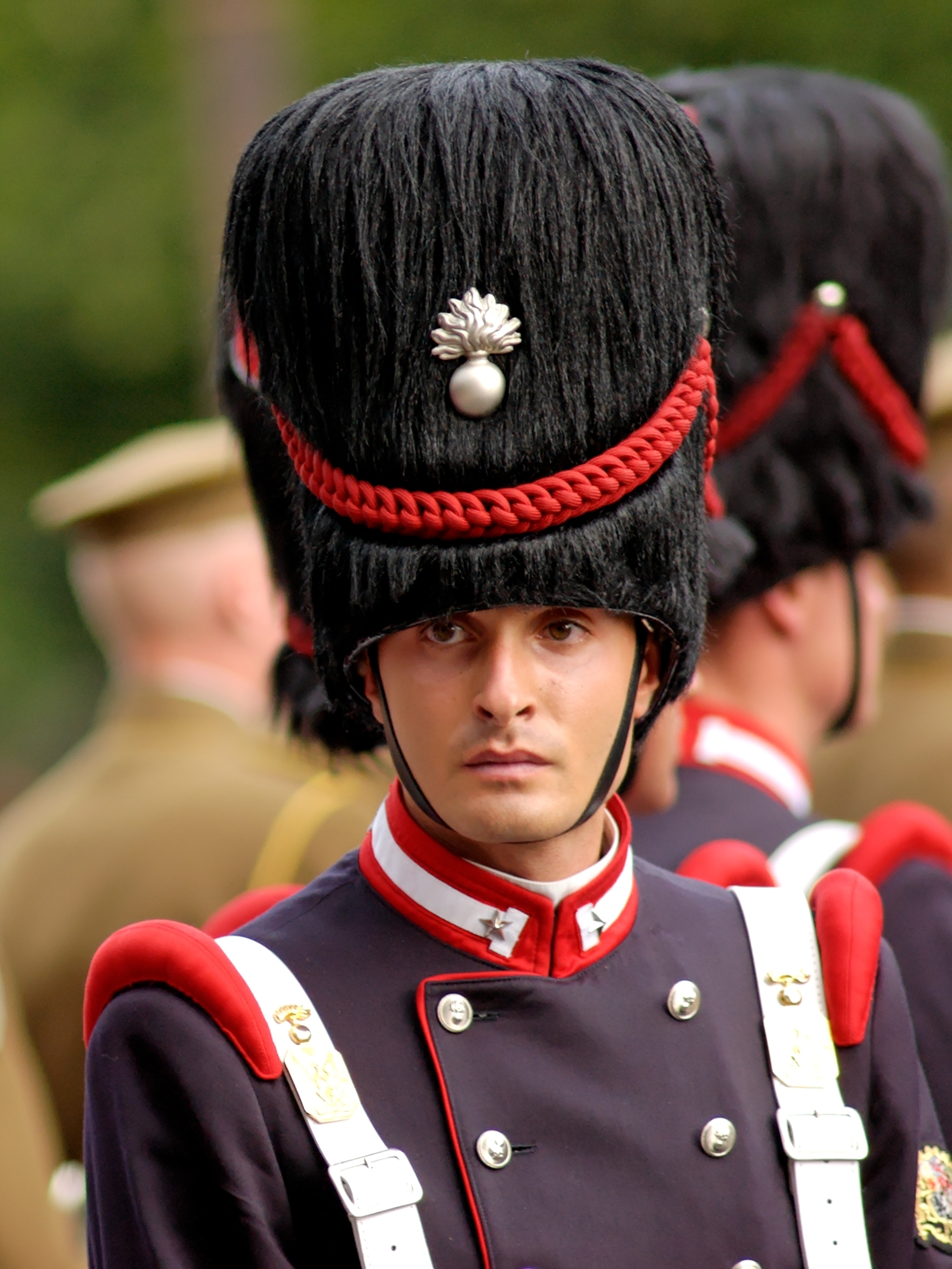 Soldiers of 1st Sardinia Grenadiers Regiment during the Bastille Day 2007 military parade on the Champs-Élysées.